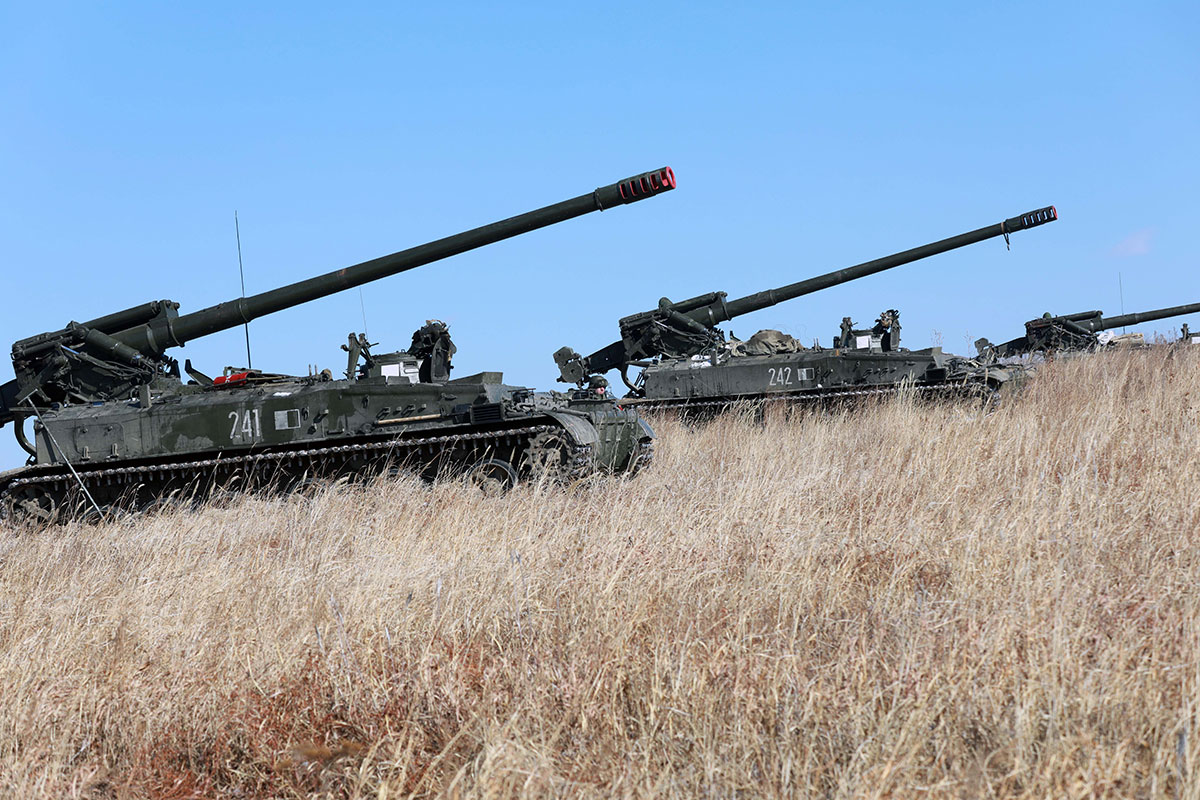 2S5 Giatsint-S of the 305th Artillery Brigade.